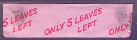 Rizzla insert